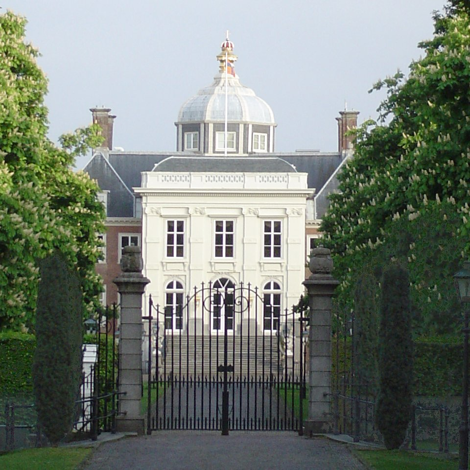 Huis ten Bosch, residence of the Queen of the Netherlands in The Hague Made by Joris 2004. Kopie van nl::Afbeelding:Huis ten Bosch.JPG, PD, bewerkt.